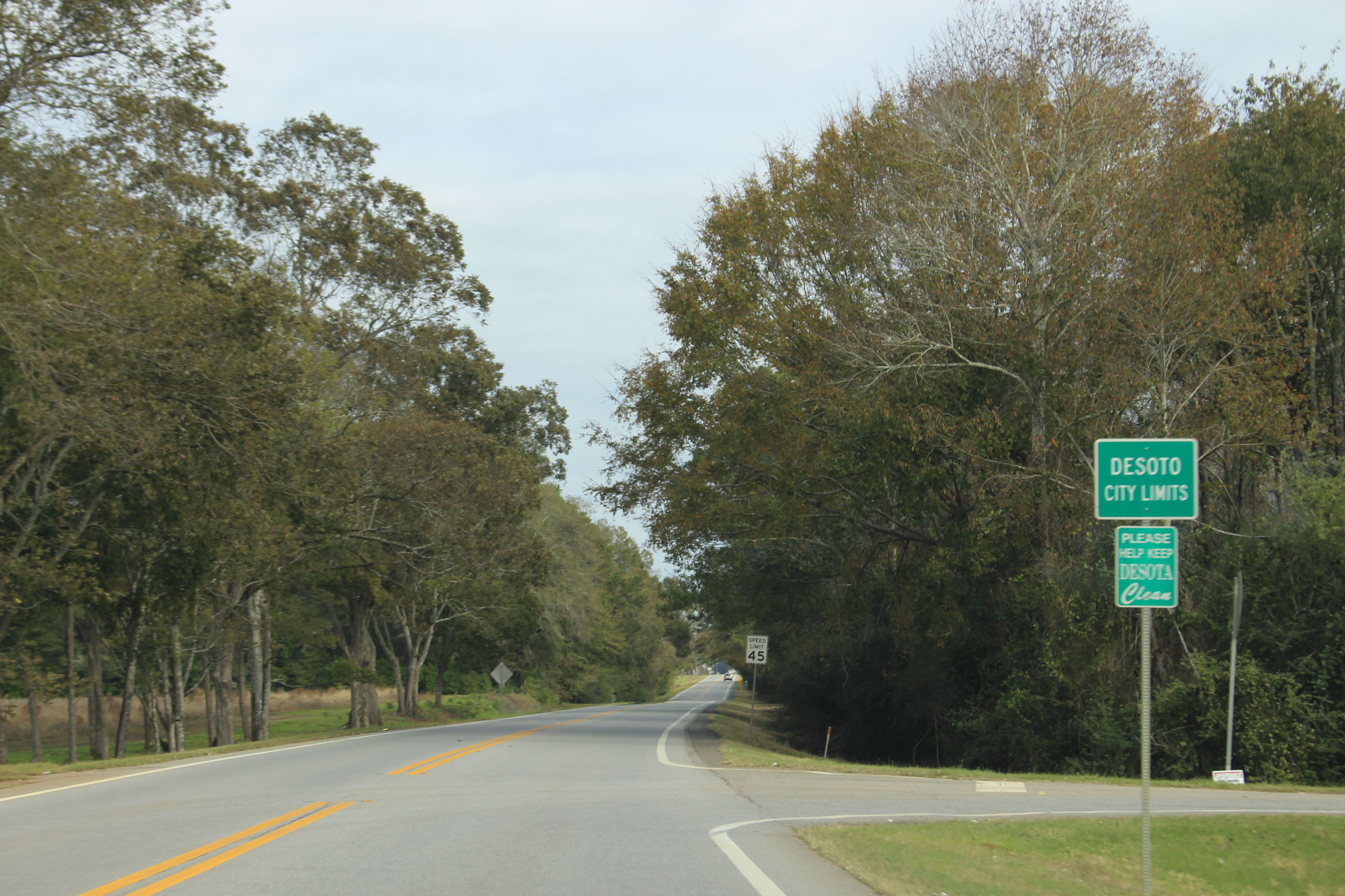 Desoto City limit, Georgia State Route 30/U.S. Route 280, Sumter County, Georgia